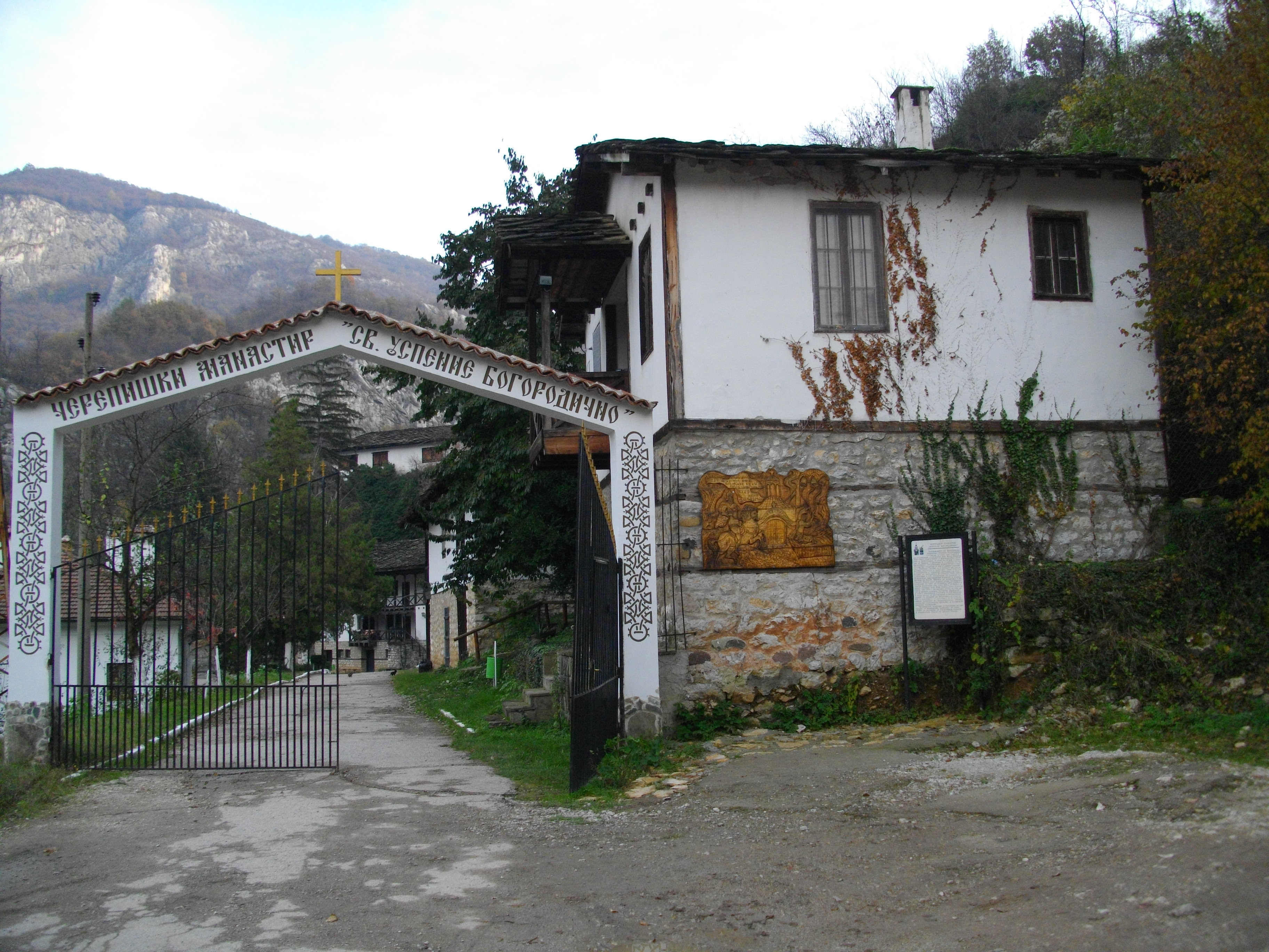 Cherepish Monastery Assumtion of Mother Mary